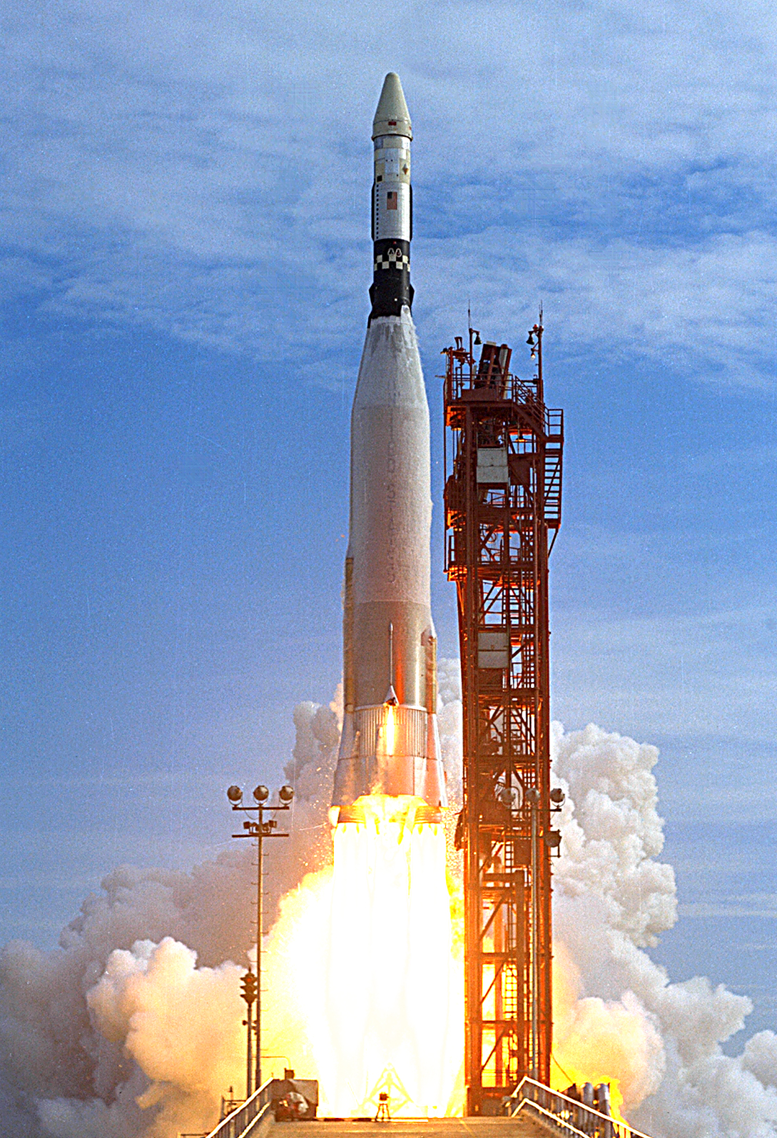 Atlas Agena target vehicle liftoff for Gemini 11 from Pad 14. Once the Agena was in orbit, Gemini 11 rendezvoused and docked with it.